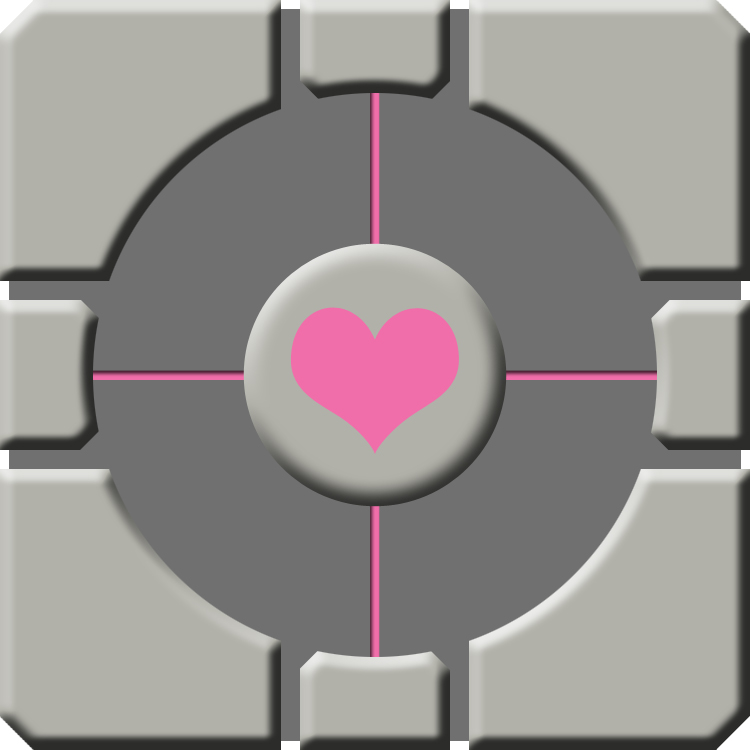 The Companion Cube from the video game Portal.